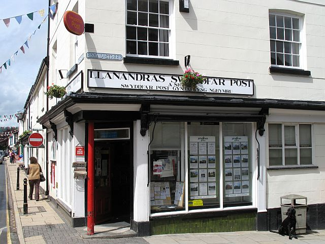 Presteigne P.O / S.P. Llanandras Waiting on the corner. Funny how many of the world's "St Andrews" are wonderful places.